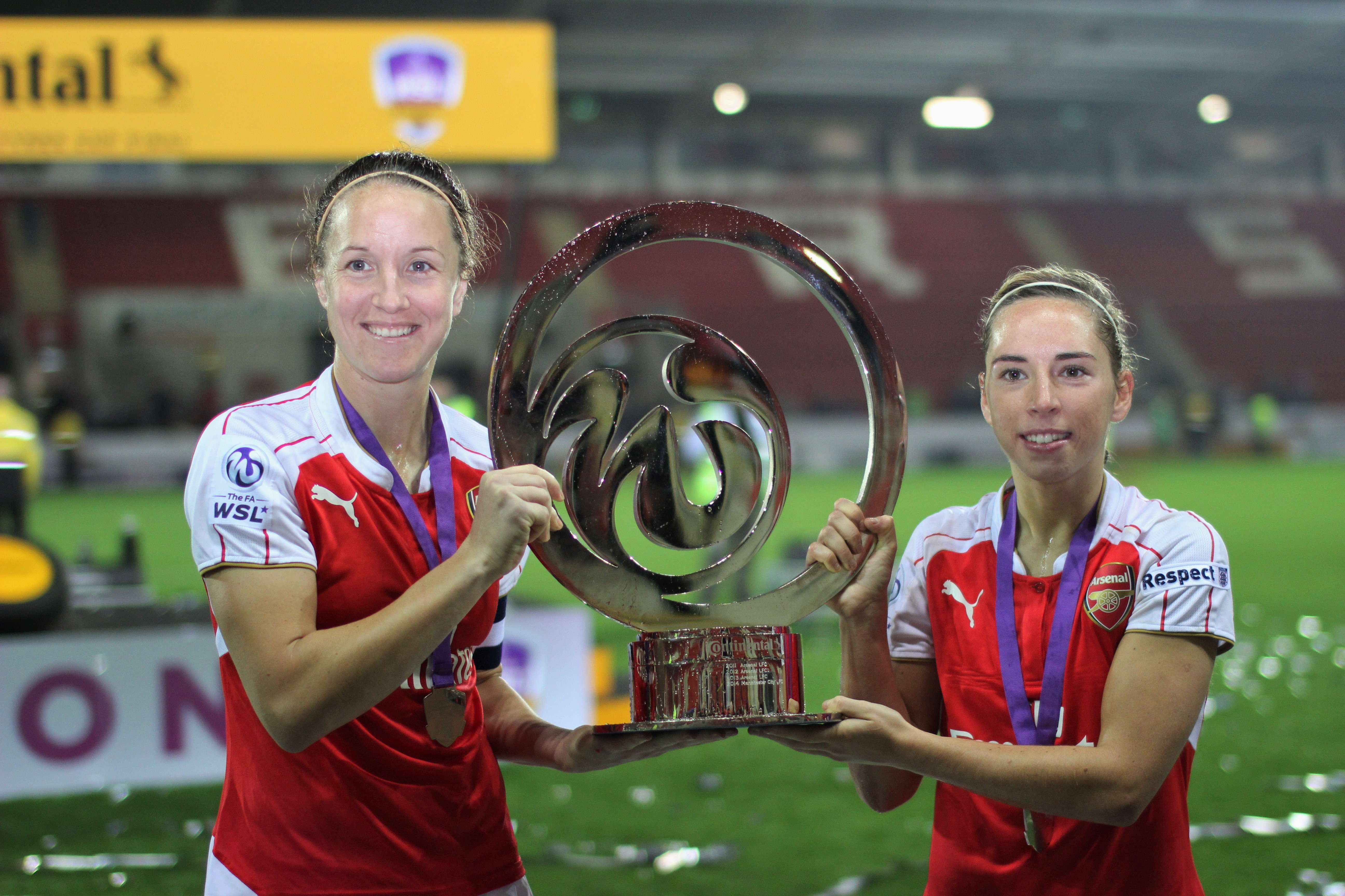 Jordan Nobbs and Casey Stoney of Arsenal Ladies celebrate winning the Continental Cup Final against Notts County.